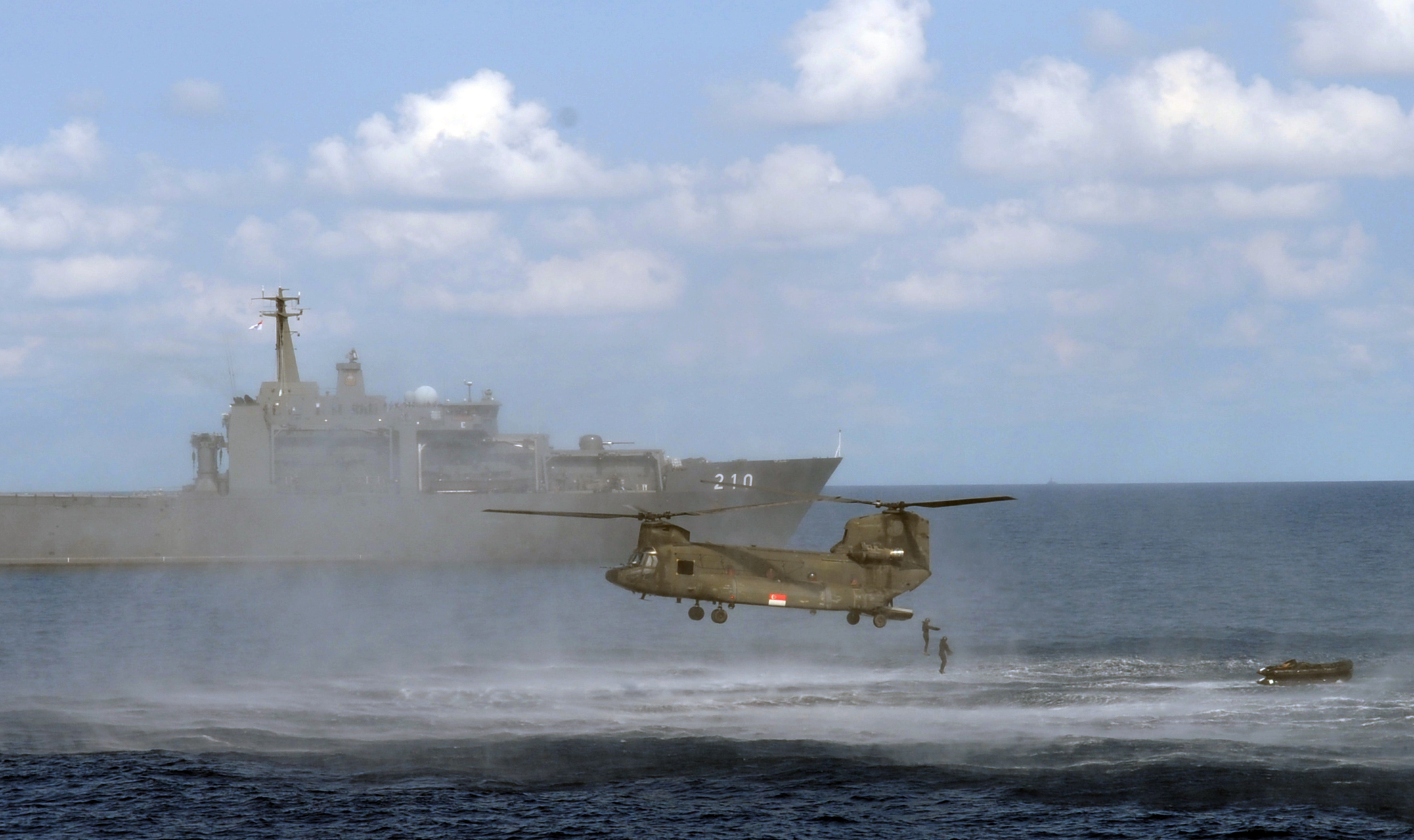 SINGAPORE (Aug. 23, 2010) A Republic of Singapore Navy Chinook helicopter deploys a rescue diver team and raft near the Republic of Singapore Navy command ship RSS Endeavour (LST 210) during Pacific Reach 2010. (U.S. Navy photo by Lt. Lara Bollinger/Released)